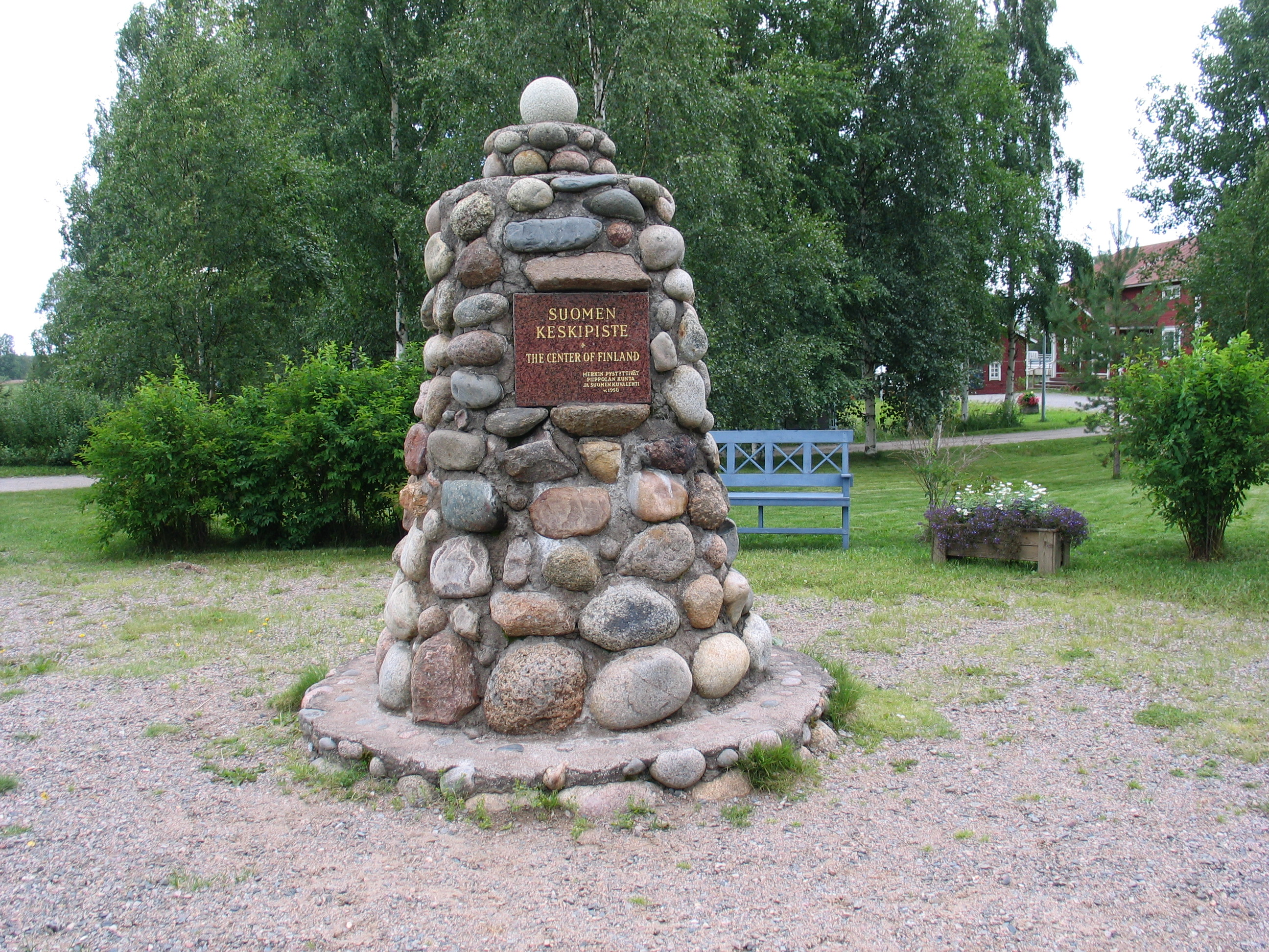 Centerpoint of Finland